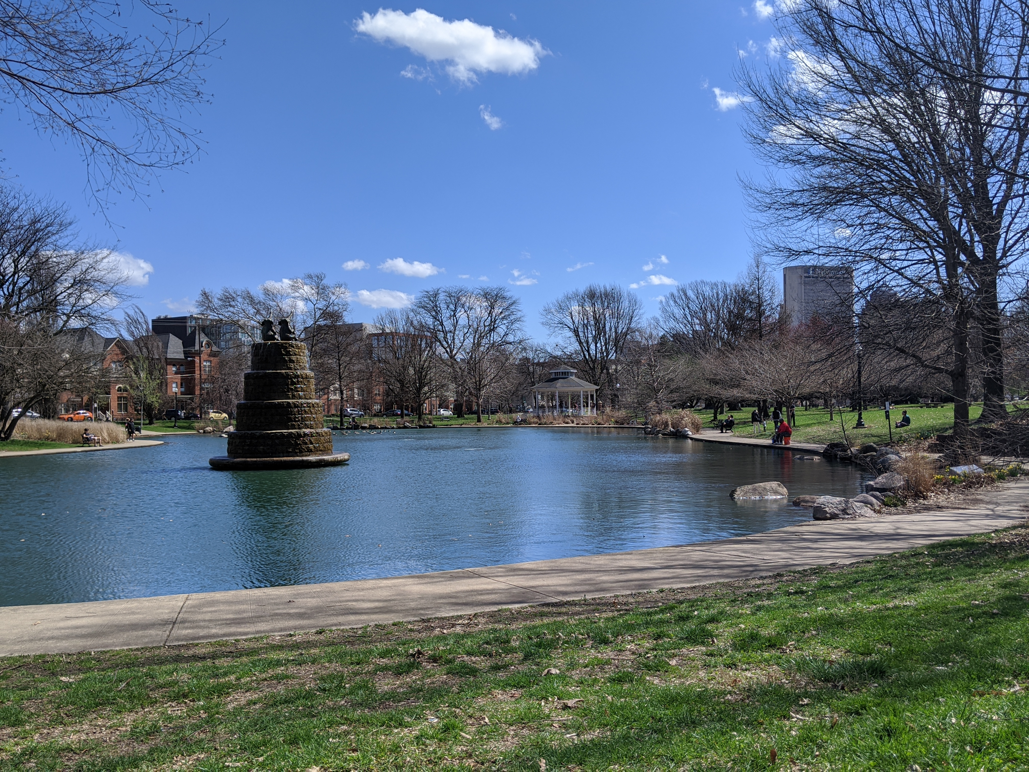 Goodale Park in Columbus, Ohio.